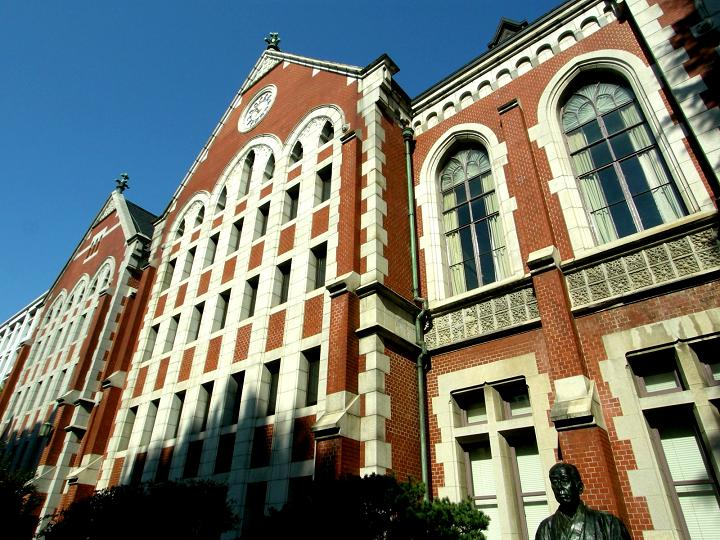 Mita campus of Keio University